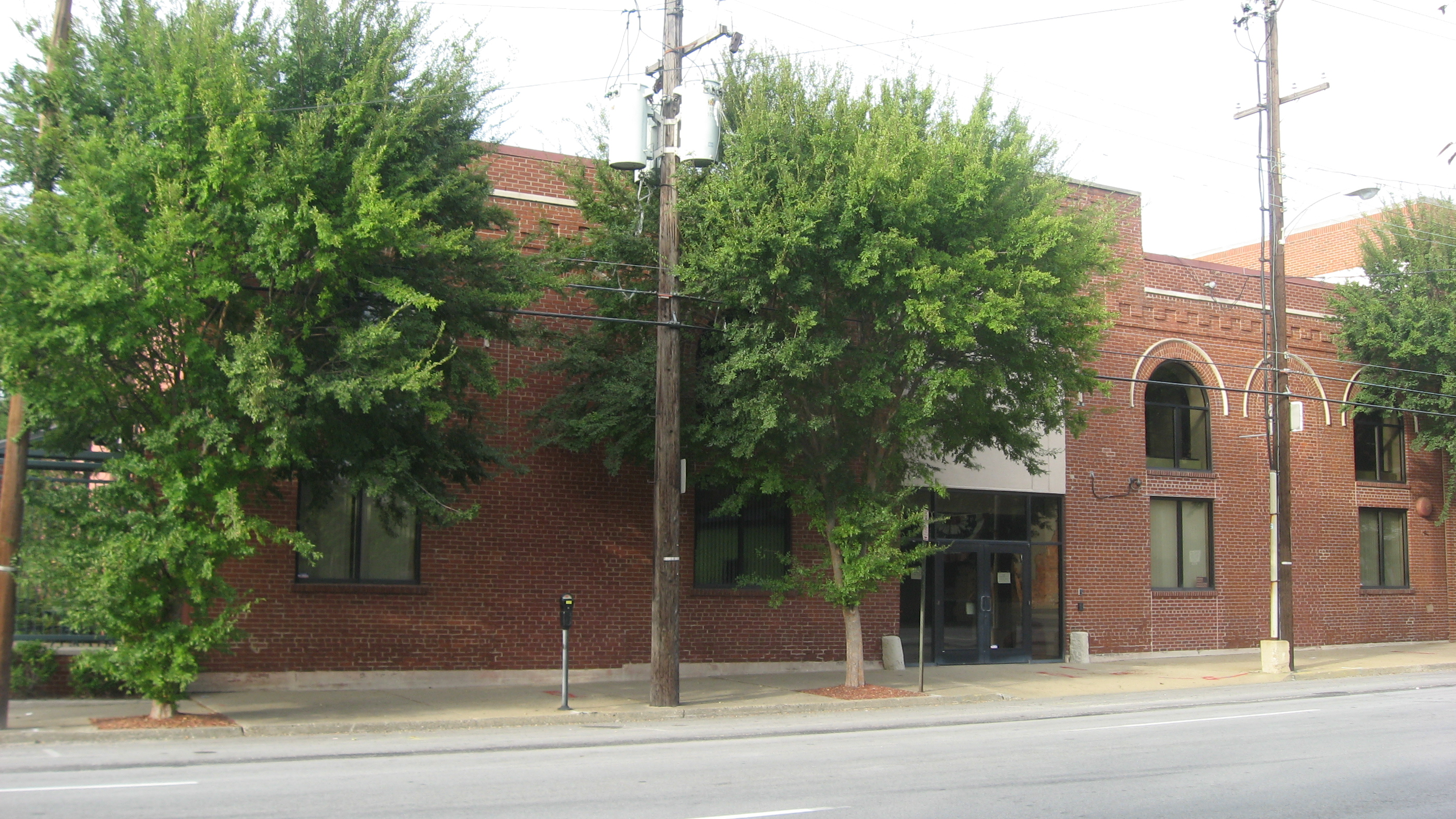 Front of the Brown Tobacco Warehouse, located at 1019-1025 W. Main Street (U.S. Route 31W) in Louisville, Kentucky, United States. Built in 1892, it is listed on the National Register of Historic Places.